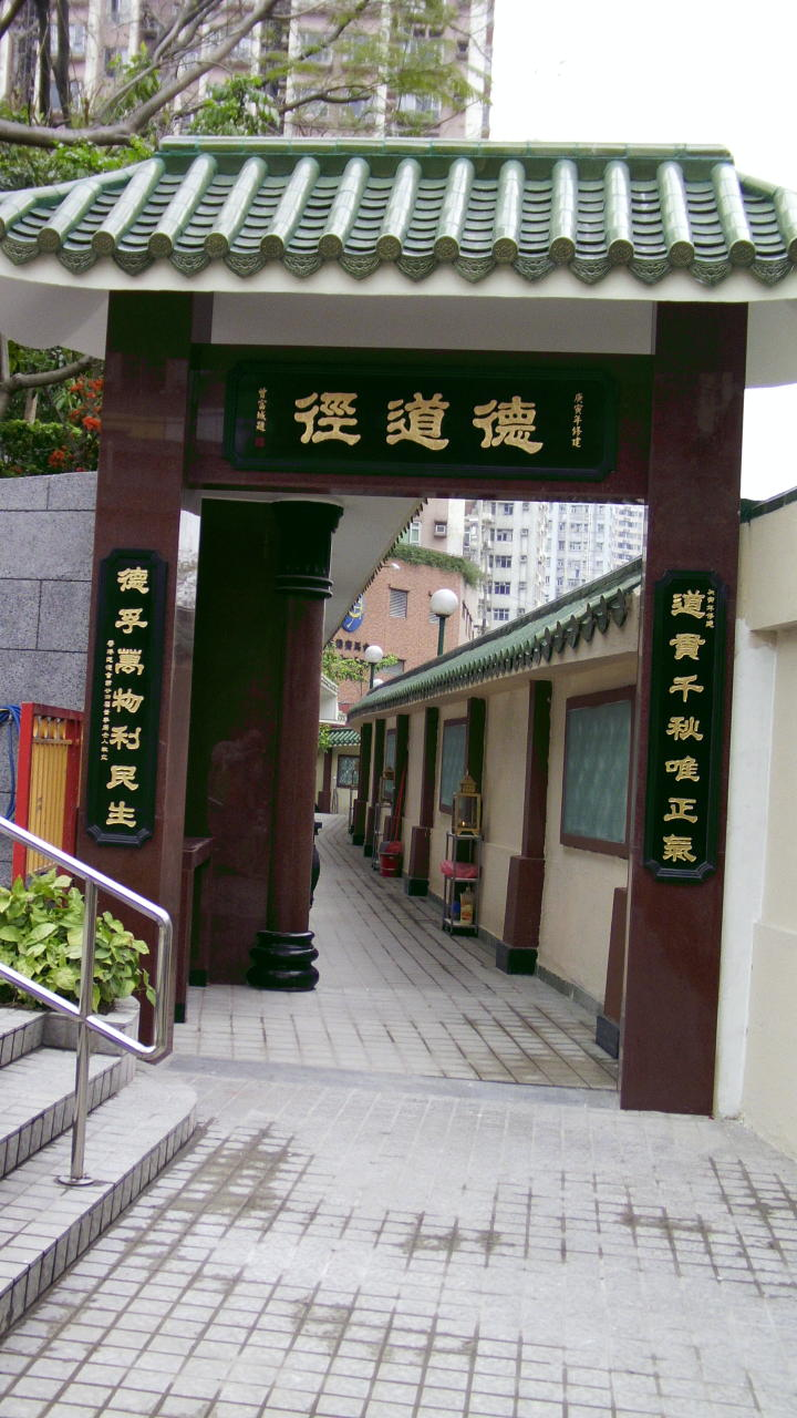 Virtue_Path_at_Tuen_Mun_Sin_Hing_Tung 中文（香港）: 香港新界屯門善慶洞道德亭